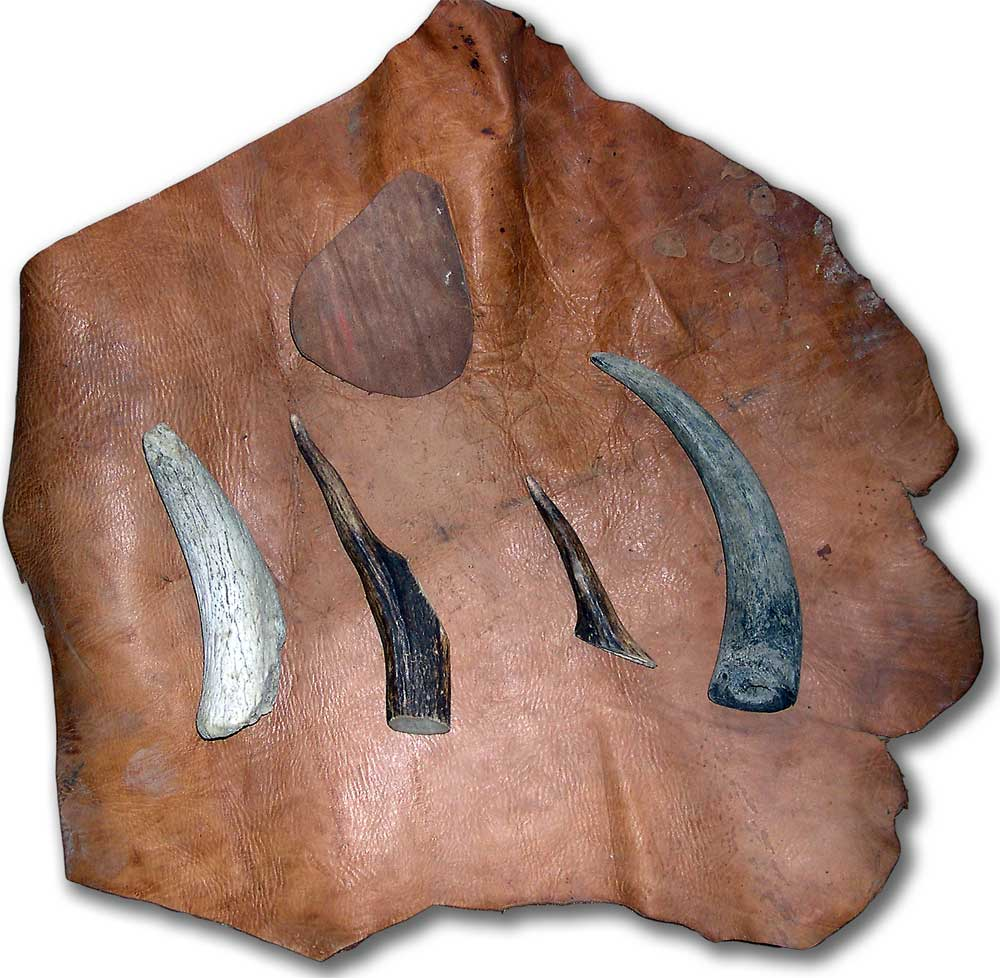 Several antler pieces for experimental debitage or retouch «in the hands»